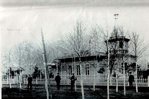 Taken before the Revolution (1917) in Khabarovsk Krai